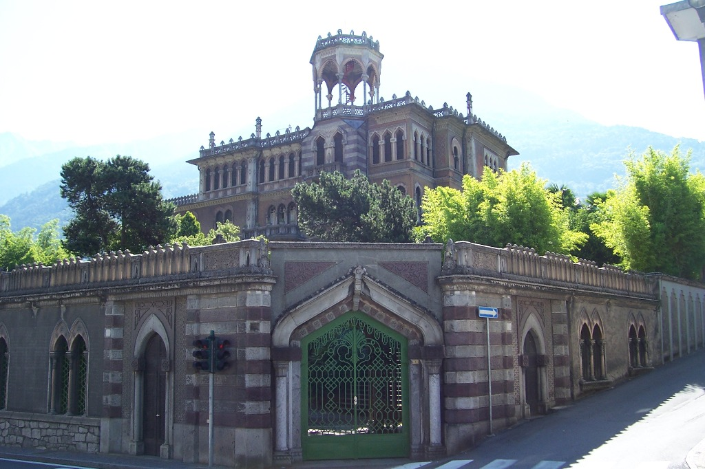 Castle of Breno, Valle Camonica